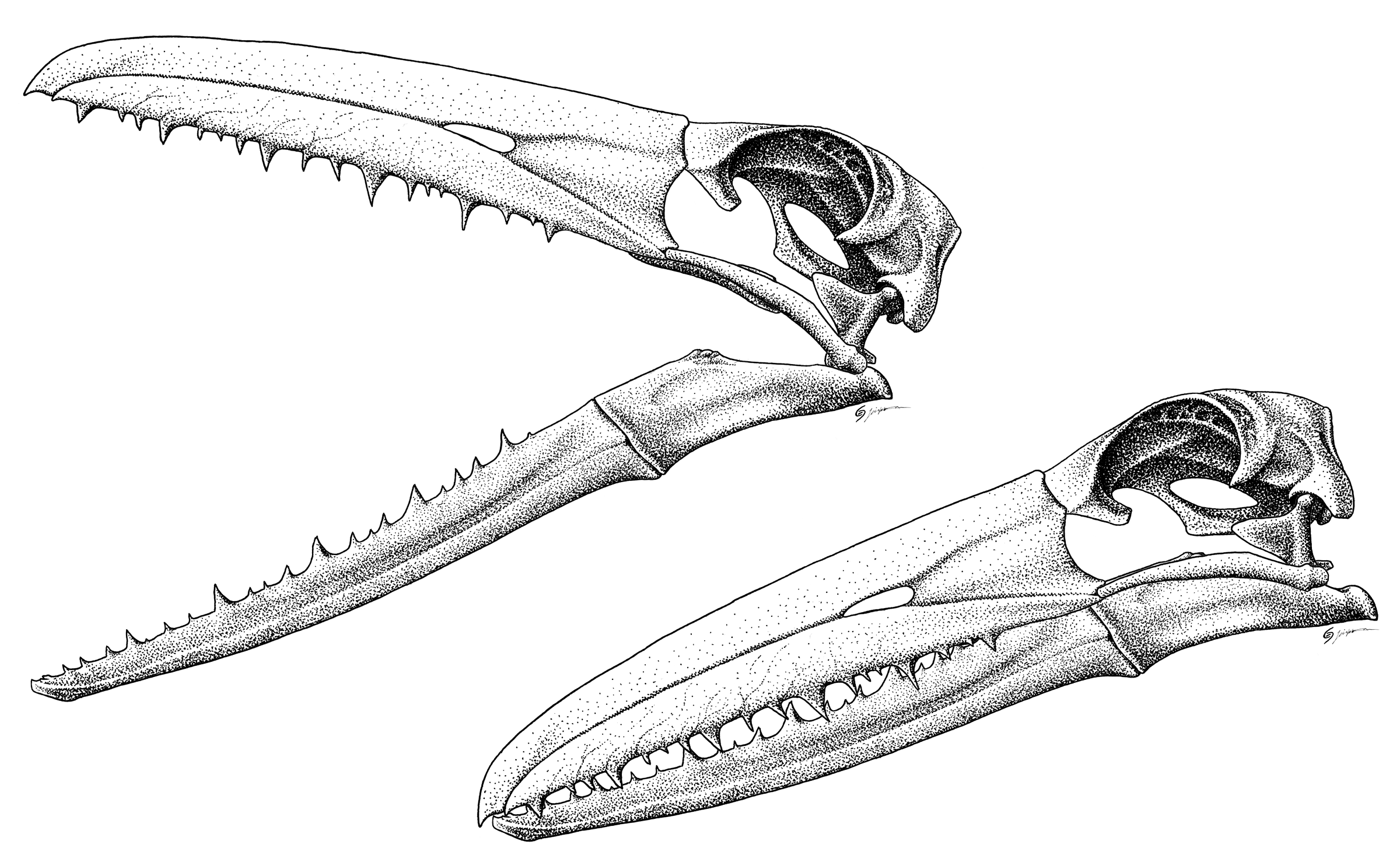 Skeletal reconstruction of Pelagornis sandersi.